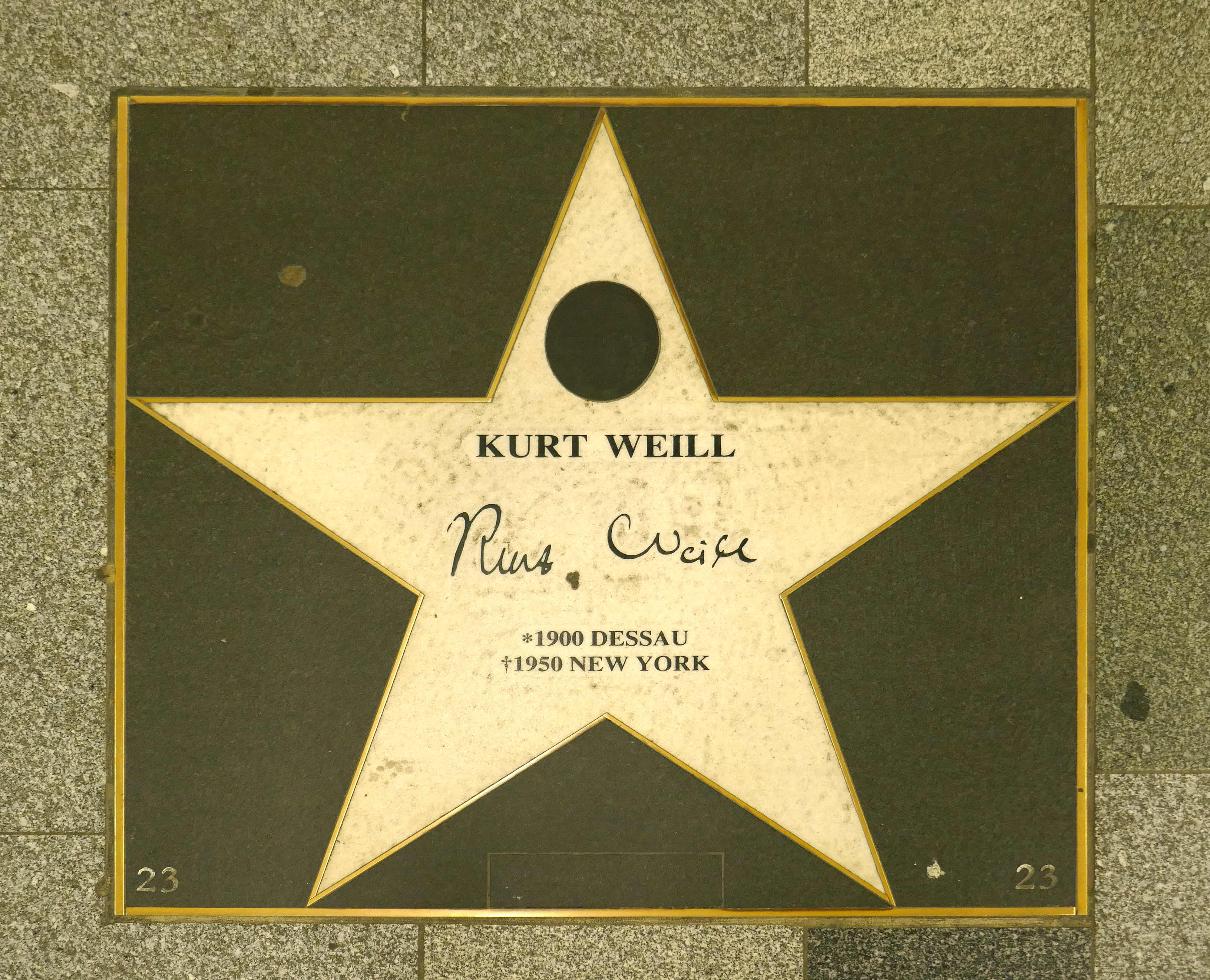 Walk of Fame Vienna Kurt Weill.